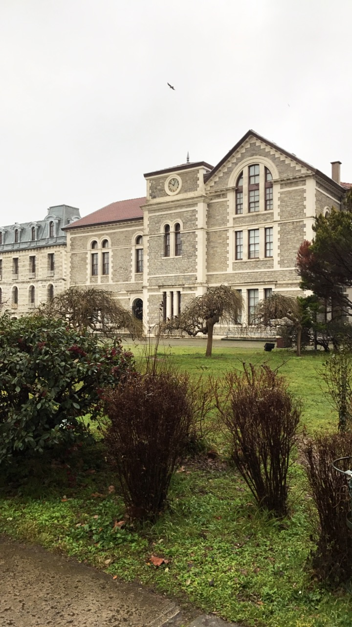 Albert Long Hall at Boğaziçi University.